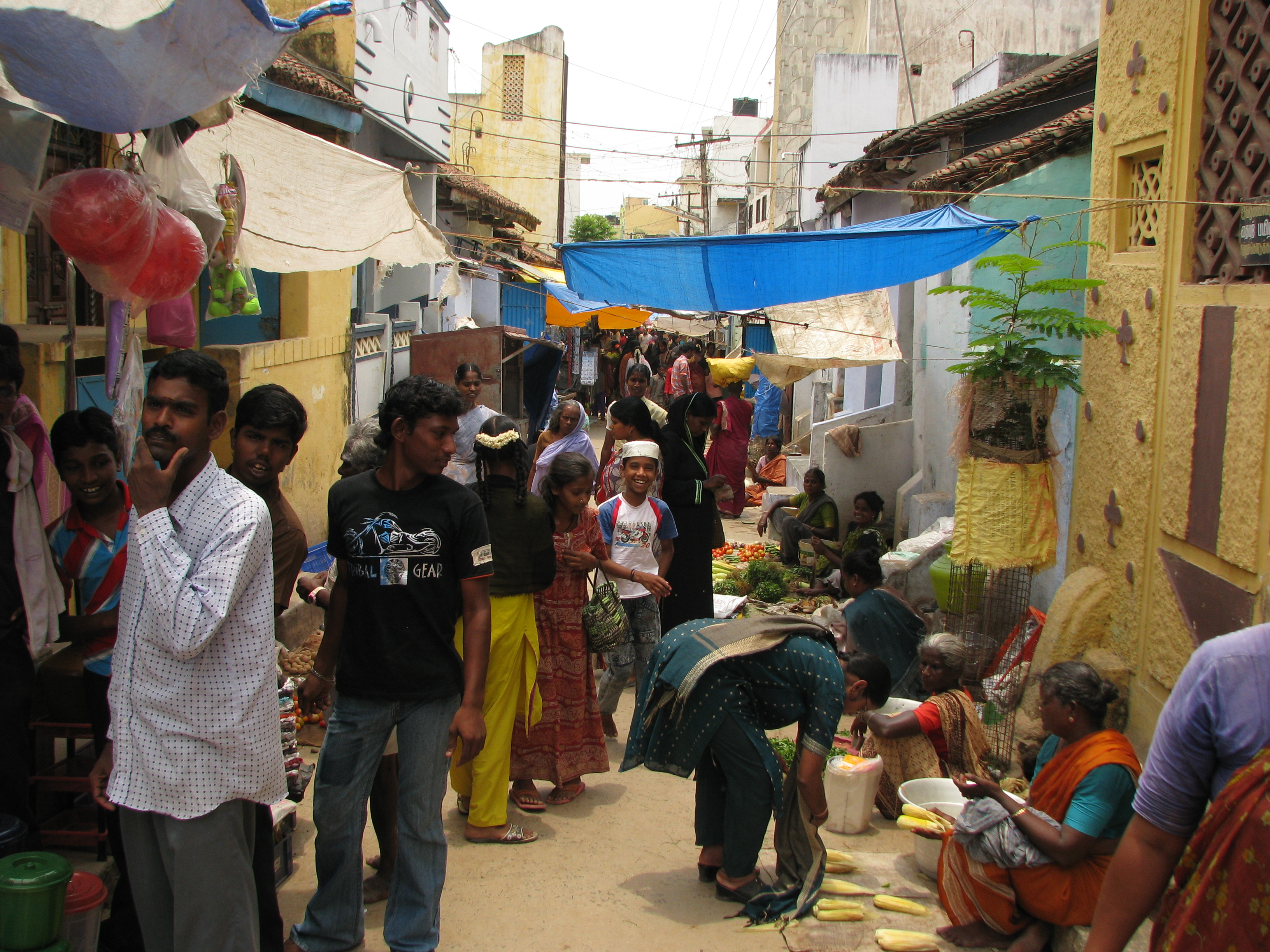 A small market street bustles with noontime shoppers in Vellore.